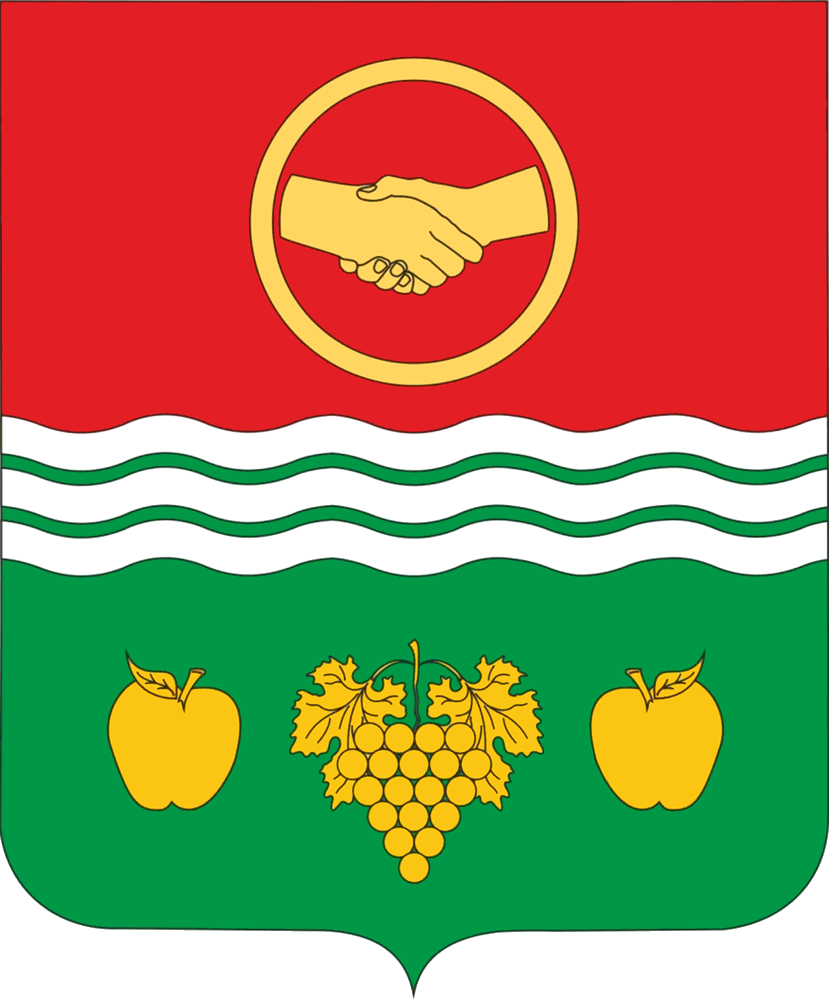 Coat of arms of Bakhchisaray rayon, Crimea, Russia